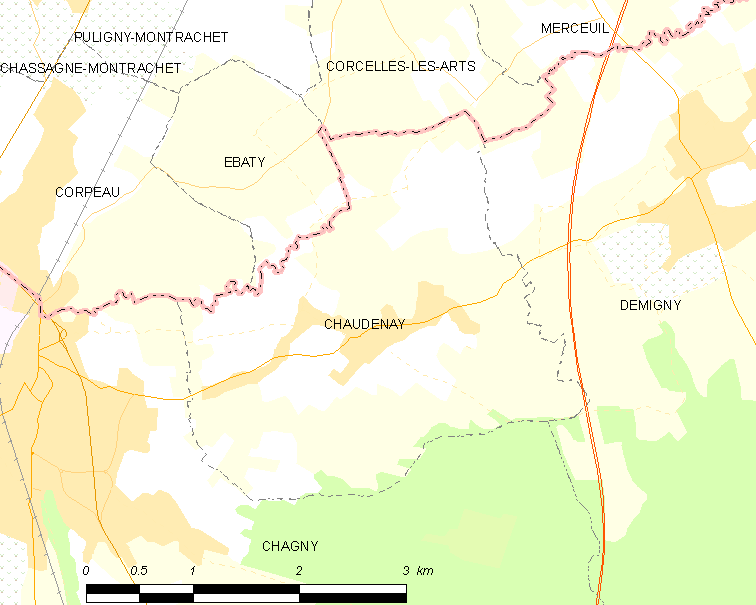 Map of French municipality